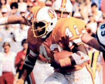 Tampa Bay Buccaneers' running back Ricky Bell rushing the ball against the Philadelphia Eagles during the 1979 NFC Divisional Playoff Game on December 29, 1979.